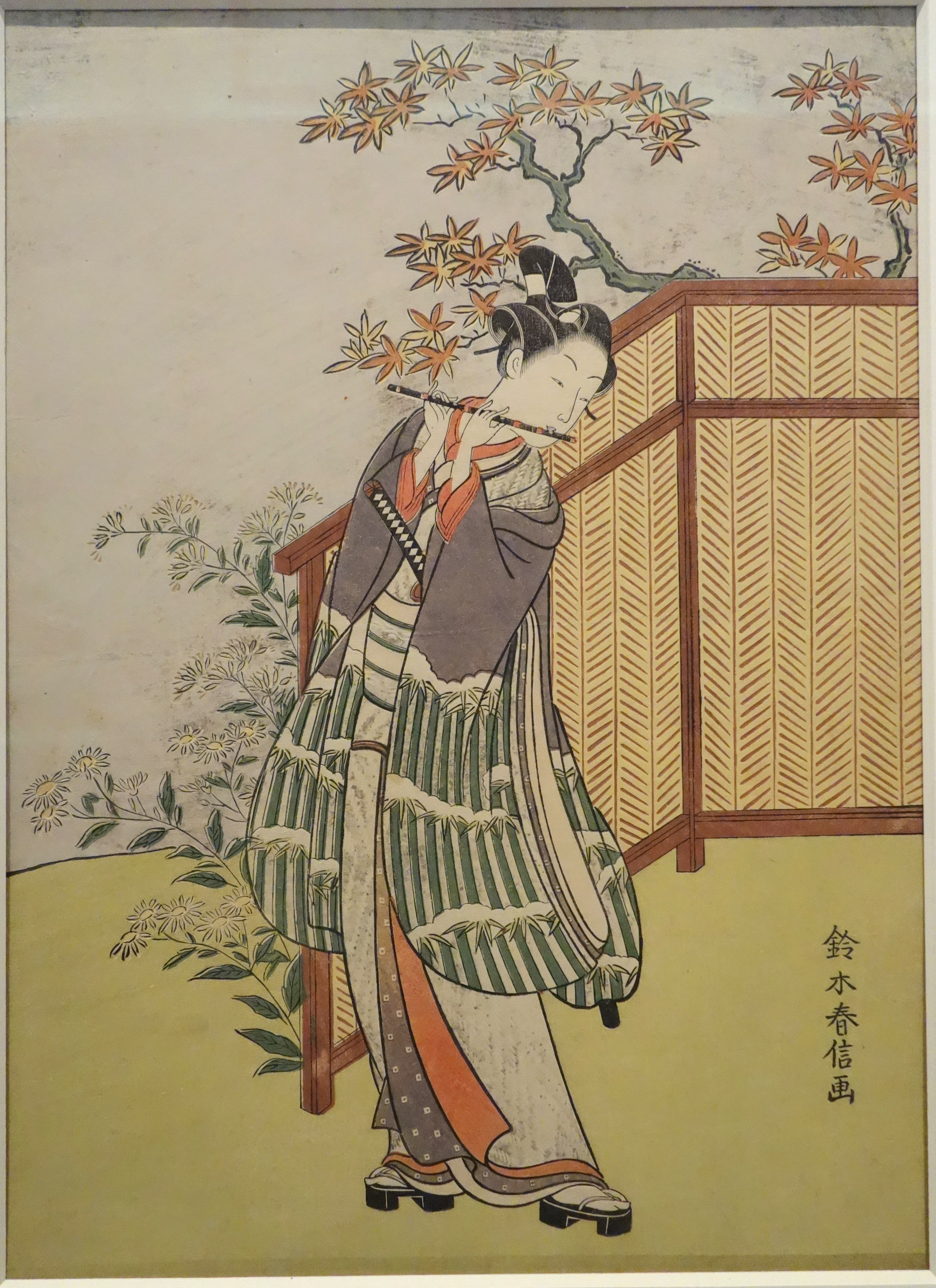 Exhibit in the Tokyo National Museum, Tokyo, Japan. This artwork is old enough so that it is in the public domain.